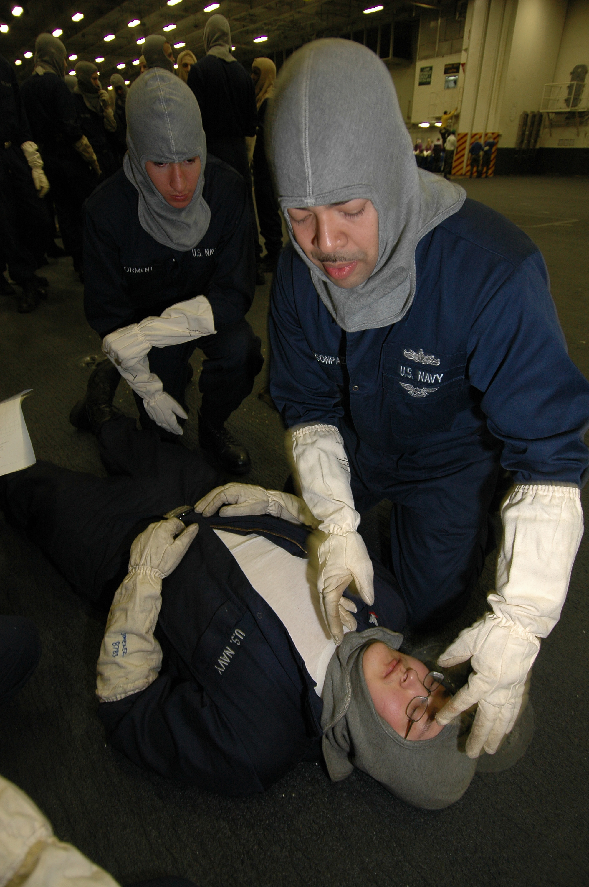 MEDITERRANEAN SEA (May 6, 2007) - Hospital Corpsman 2nd Class John Obregonpaz from Brooklyn, N.Y., conducts cardio pulmonary resuscitation (CPR) training during a general quarters (GQ) drill in hangar bay one of USS Kitty Hawk (CV 63). During GQ, Sailors train to defend the ship, control battle damage, and perform first aid and life-saving techniques. Kitty Hawk is the Navy's only overseas-based aircraft carrier and operates out of to Yokosuka, Japan. U.S. Navy photo by Mass Communication Specialist Seaman Kyle D. Gahlau (RELEASED)